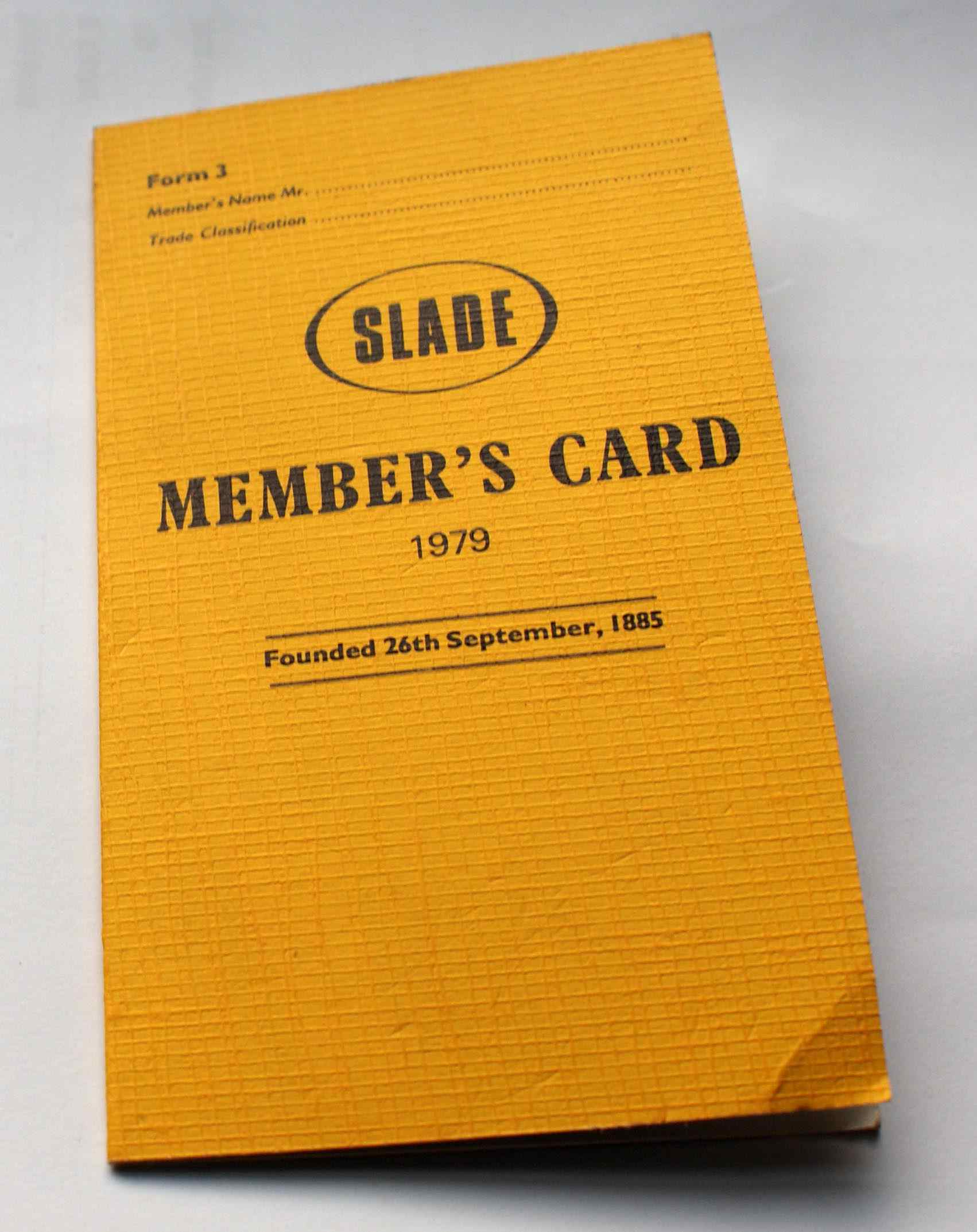 Yellow membership card for the Society of Lithographic Artists, Designers, Engravers and Process Workers relating to the year 1979. Includes donations made to the chapel. Accession Number: hh.5106.3.90 The Society of Lithographic Artists, Designers, Engravers and Process Workers was founded in 1885 as the National Society of Lithographic Artists, Designers and Writers, Copperplate and Wood Engravers. After a number of name changes it became the Society of Lithographic Artists, Designers, Engravers and Process Workers in 1922. The SLADE&PW remained distinct from the Amalgamated Society of Lithographic Printers. In 1972 it absorbed the smaller United Society of Engravers. It amalgamated with the National Graphical Association in 1982 to form the National Graphical Association (1982). Edinburgh City of Print is a joint project between City of Edinburgh Museums and the Scottish Archive of Print and Publishing History Records (SAPPHIRE). The project aims to catalogue and make accessible the wealth of printing collections held by City of Edinburgh Museums. For more information about the project please visit